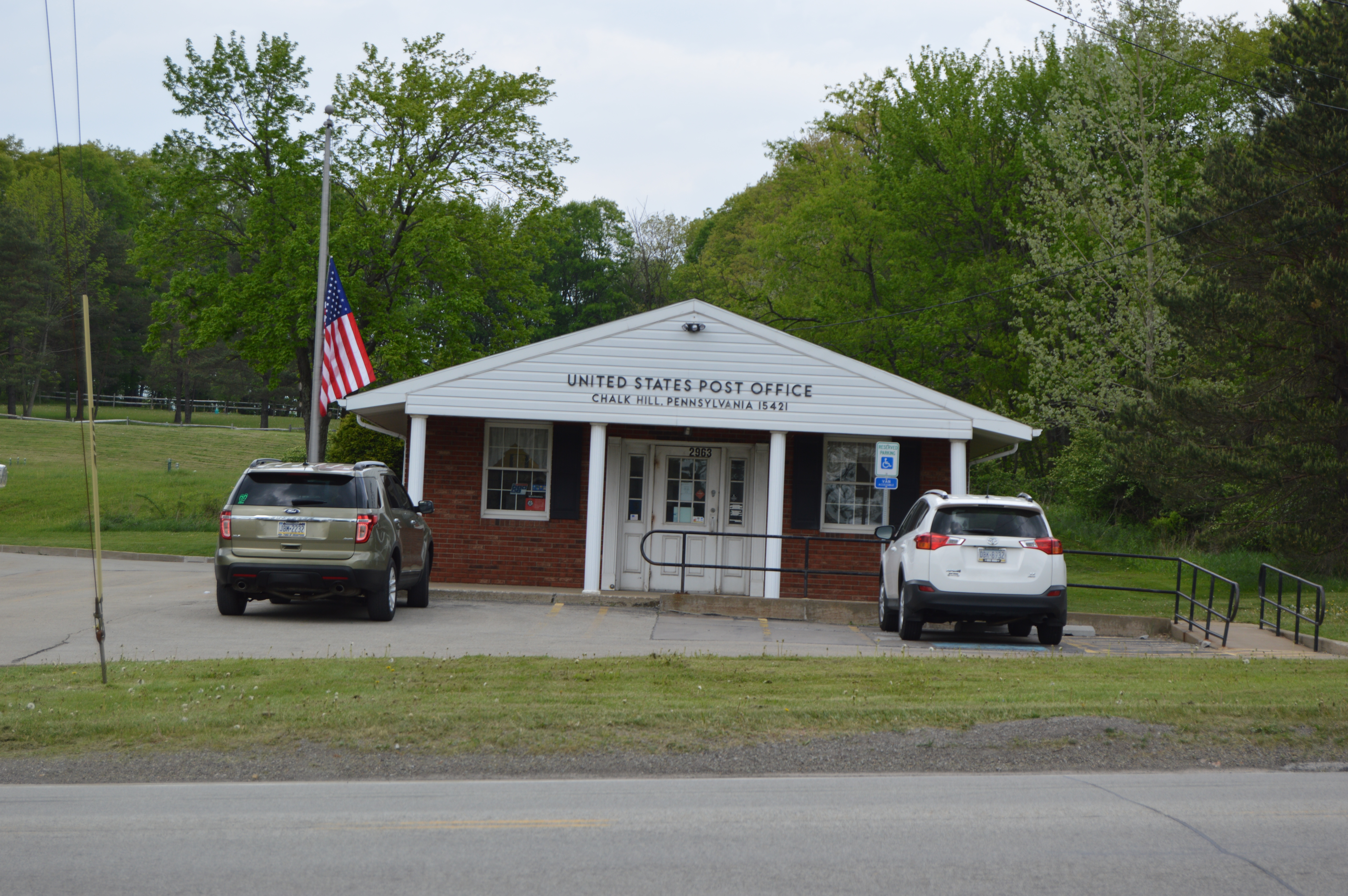 Front of the post office at Chalkhill, Pennsylvania, United States.